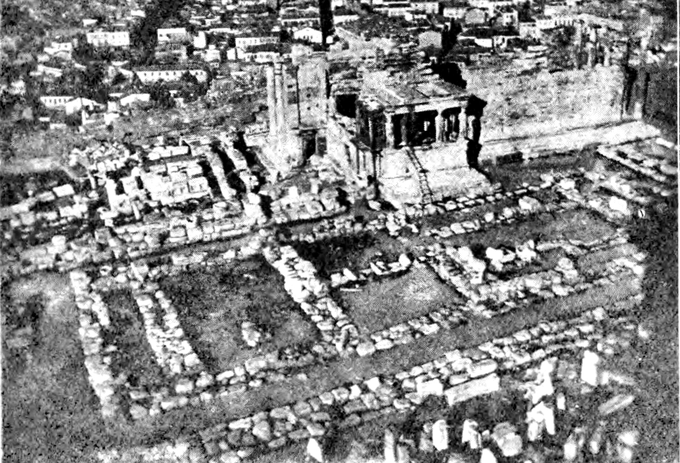 Foundations of the Old Athena Temple (foreground)